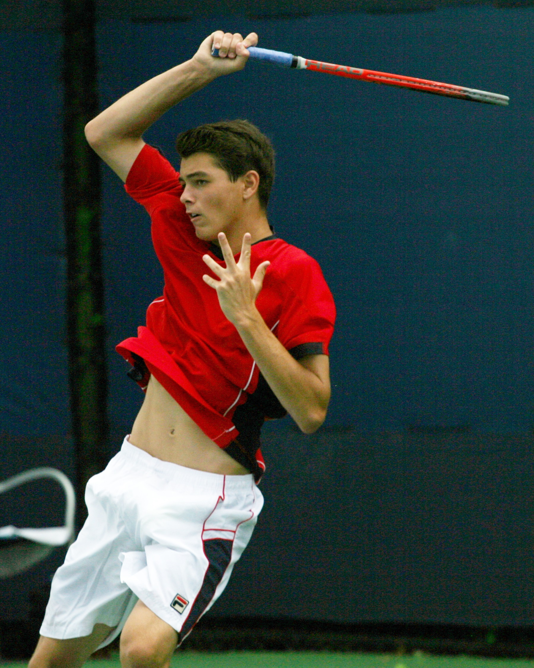 U.S. Open Juniors Monday, Sept. 2, 2013